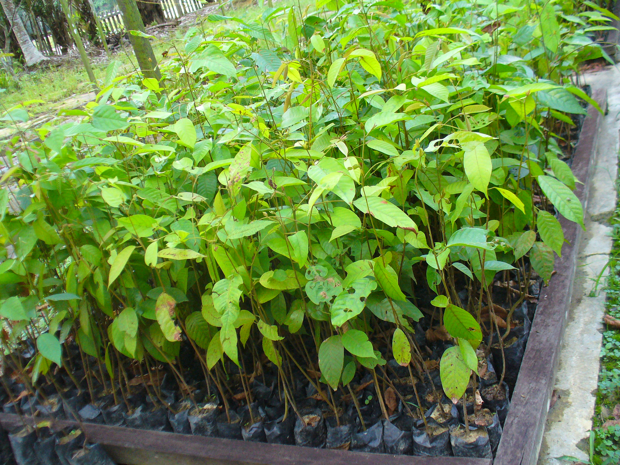 Shorea leprosula seedlings in nursery in Samboja